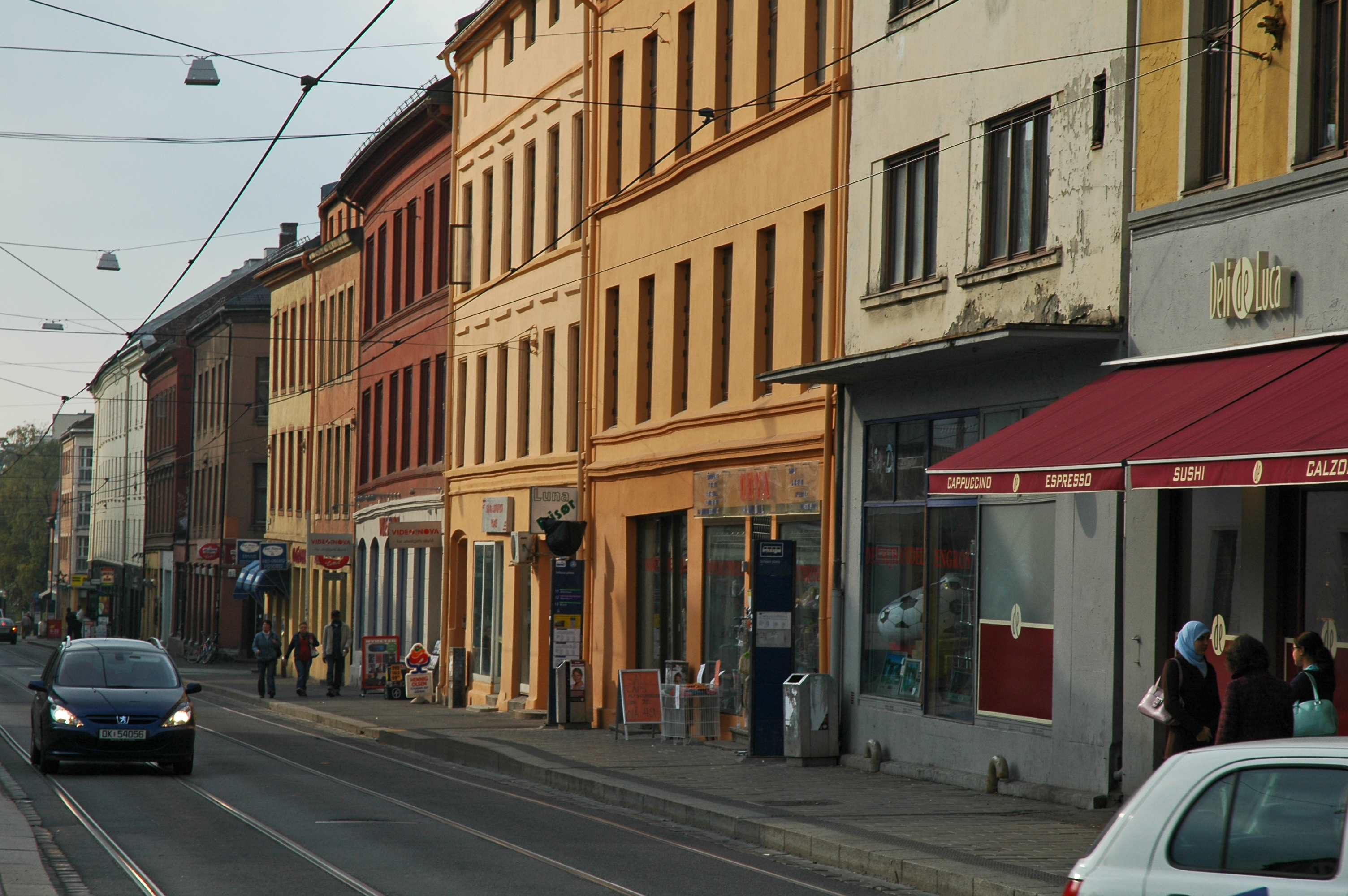 Grünerløkka in Oslo, Norway. Photo of Thorvald Meyers gate toward Schous plass.